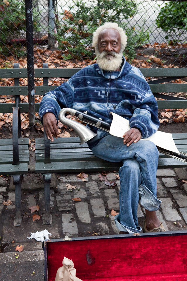 Photograph taken with permission by Giuseppi Logan, in conversation at Thompkins Square Park.